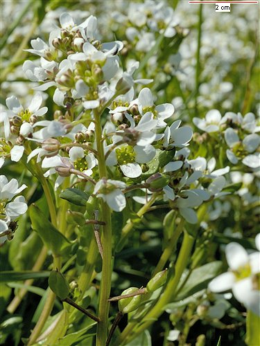 Cochlearia anglica